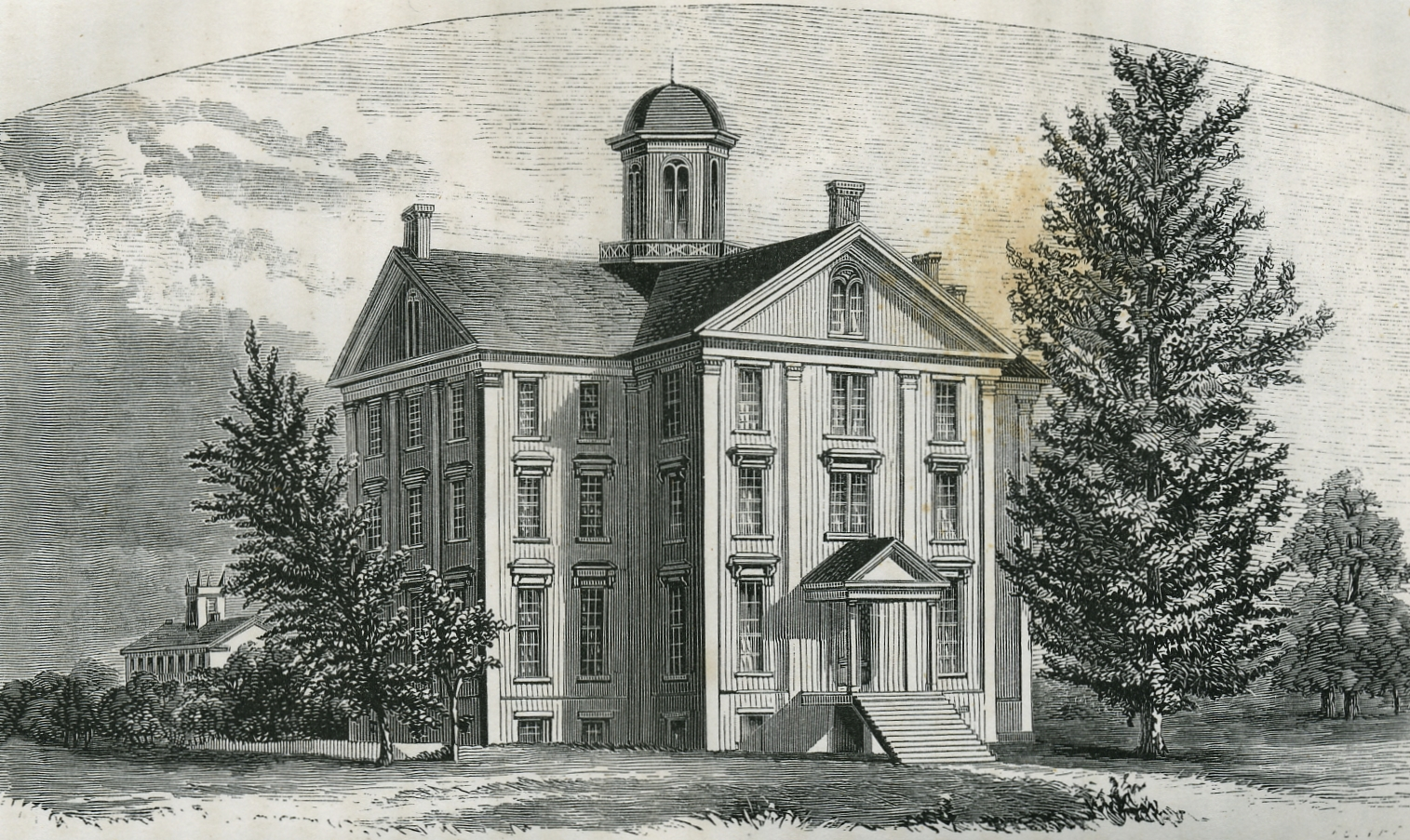 Sketch of Waller Hall. From Oregon and Its Institutions; Comprising a Full History of the Willamette University. By Gustavus Hines, Carlton & Porter, 1868.